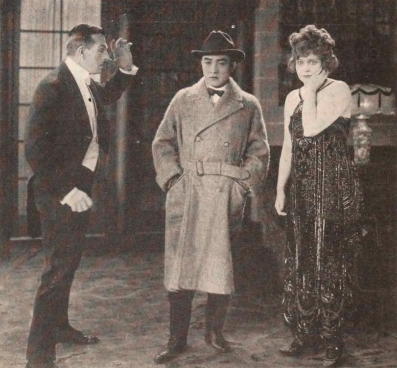 Still from the American drama film Black Roses (1921) with Henry Herbert, Sessue Hayakawa, and Myrtle Stedman, on page 87 of the June 4, 1921 Exhibitors Herald.